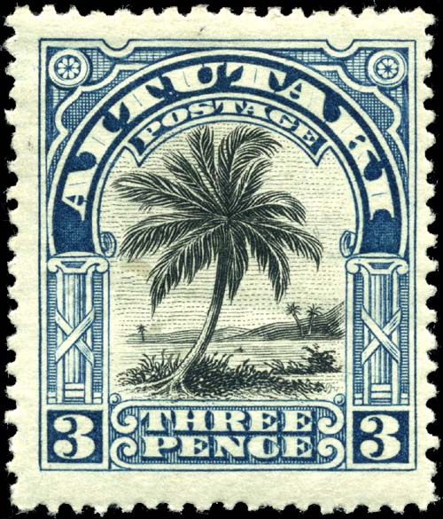 Aitutaki 3-pence stamp of 1920